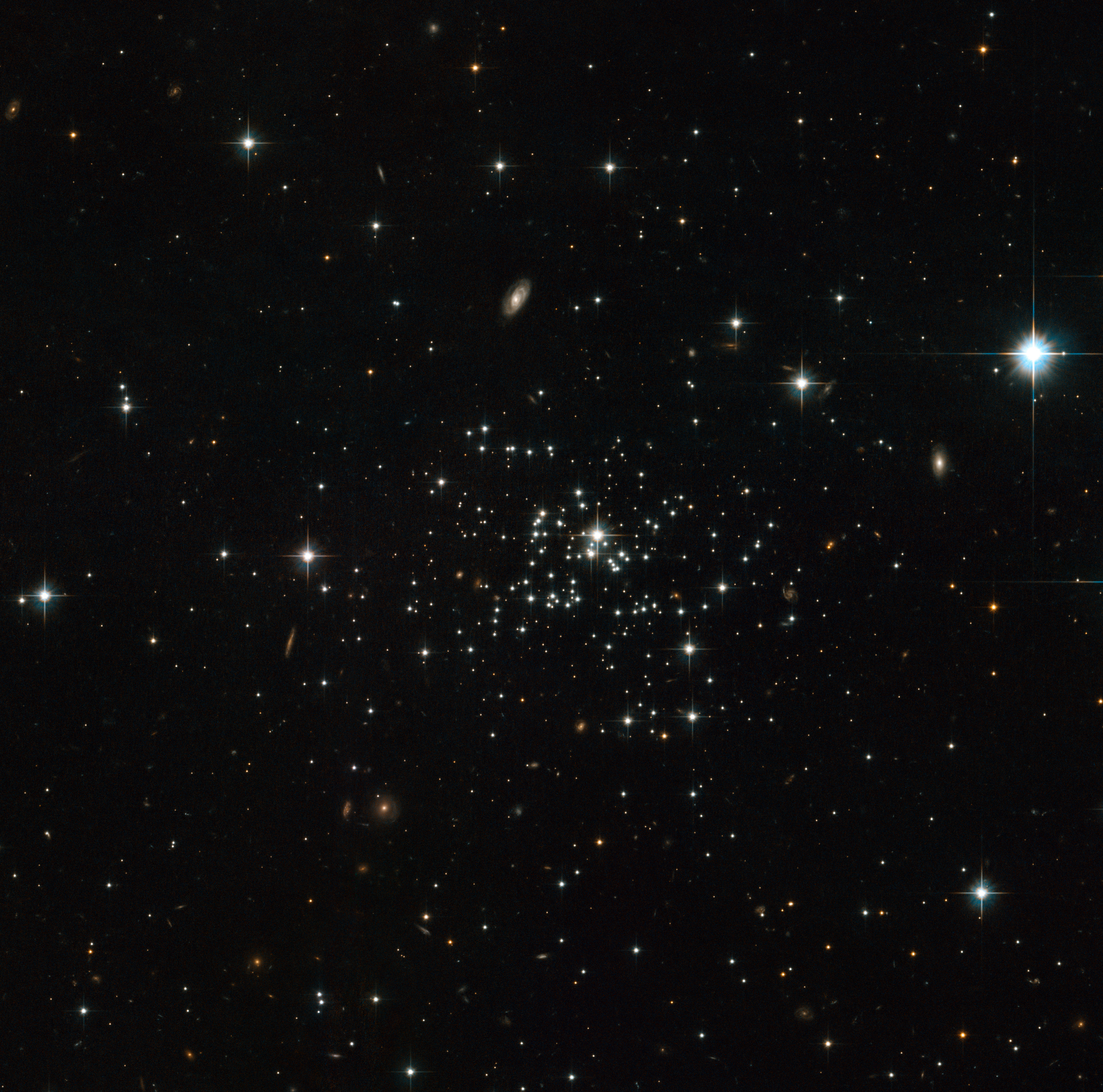 The NASA/ESA Hubble Space Telescope has captured a clear view of the unusual globular cluster Palomar 1, whose youthful beauty is a puzzle for astronomers. This faint and sparse object is very different from the more familiar brilliant and very rich globular clusters and had to wait until 1954 for its discovery by George Abell on photographs from the Palomar Schmidt telescope. Globular clusters are tightly bound conglomerations of stars, which are found in the outer reaches of the Milky Way, in its so-called halo. They are amongst the oldest objects in a galaxy, containing very old stars and no gas, which means there is no possibility of newborn stars introducing some fresh blood into the cluster. However, at 6.3 to 8 billion years old, Palomar 1 is a youngster in globular cluster terms — little more than half the age of most the other globulars in our Milky Way, which formed during our galaxy’s violent early history. However, astronomers suspect that globular youngsters, such as Palomar 1, formed in a more sedate manner. Possibly a gas cloud meandered around in the Milky Way’s halo until a trigger kick-started star formation. Another possibility is that the Milky Way captured the stellar group; perhaps it was adrift in the Universe before it was gravitationally attracted to our galaxy, or maybe it had a violent beginning after all and is the remnant of a dwarf galaxy that was devoured by the Milky Way. Behind the sparsely populated Palomar 1 several background galaxies are seen and a few nearby bright foreground Milky Way stars are also visible. Together with Palomar 1 these objects make up an attractive “family portrait”. This picture was created from images taken with the Wide Field Channel of the Advanced Camera for Surveys. Images through orange (F606W, coloured blue) and near-infrared (F814W, coloured red) filters were combined. The exposure times were 1965 s per filter and the field of view is 3.0 arcminutes across.